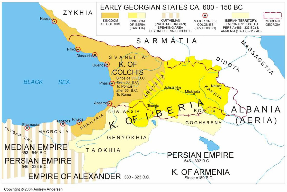 Early Georgian States of Colchis and Iberia.